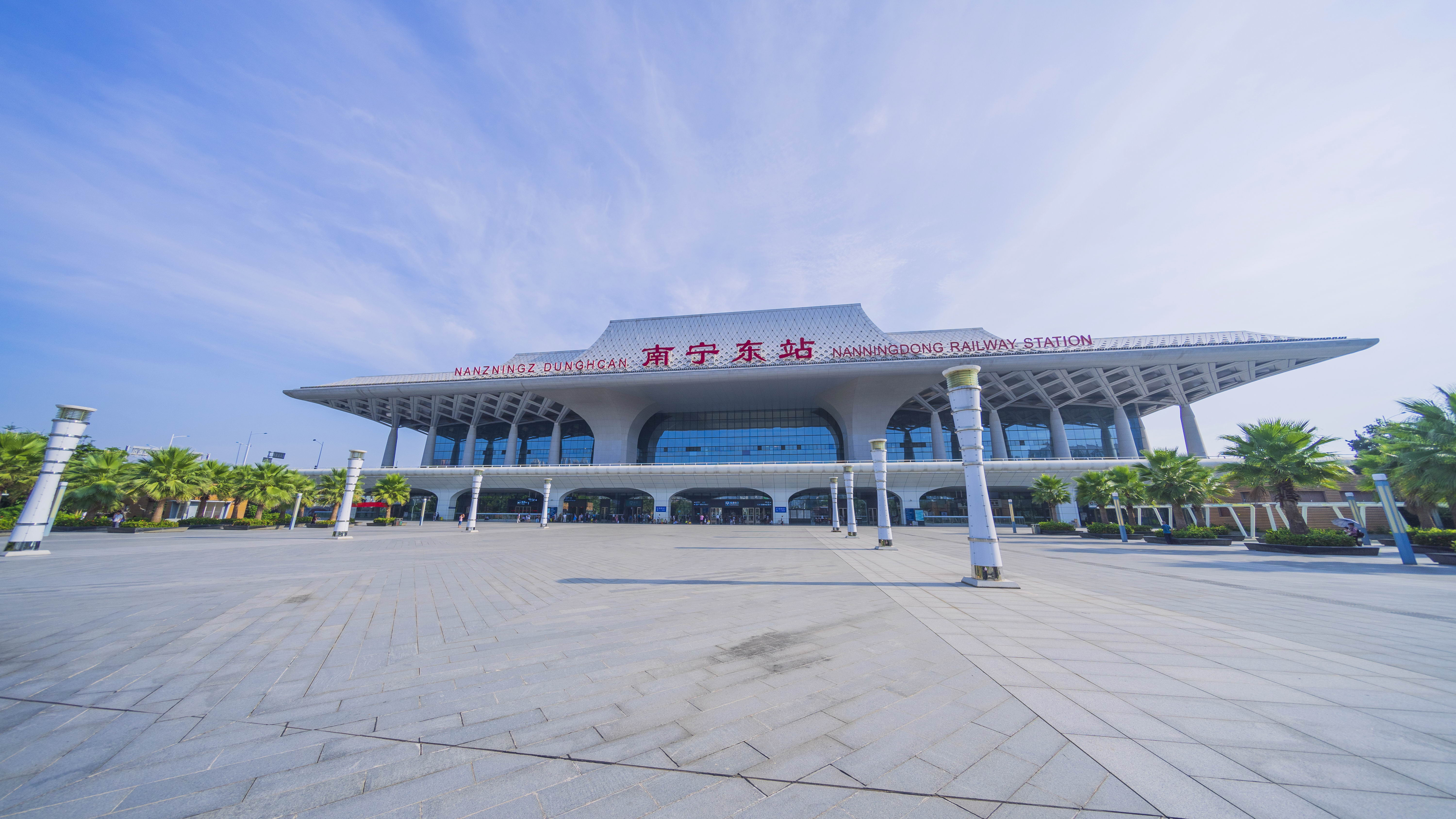 Nanning, China